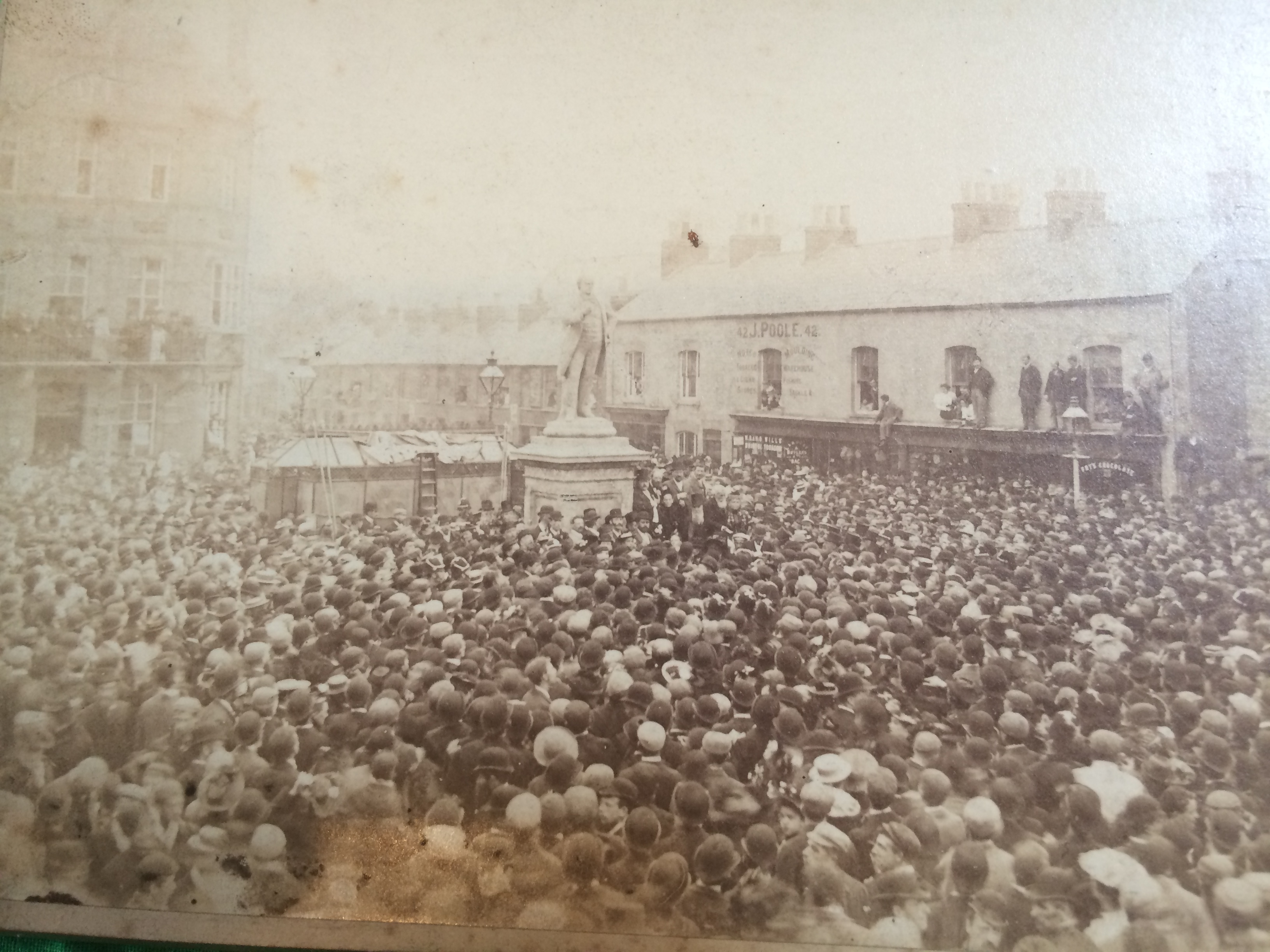 Photo of the Charles Bradlaugh Statue in Northampton, Abington Square with a large crowd celebrating. Date unknown.